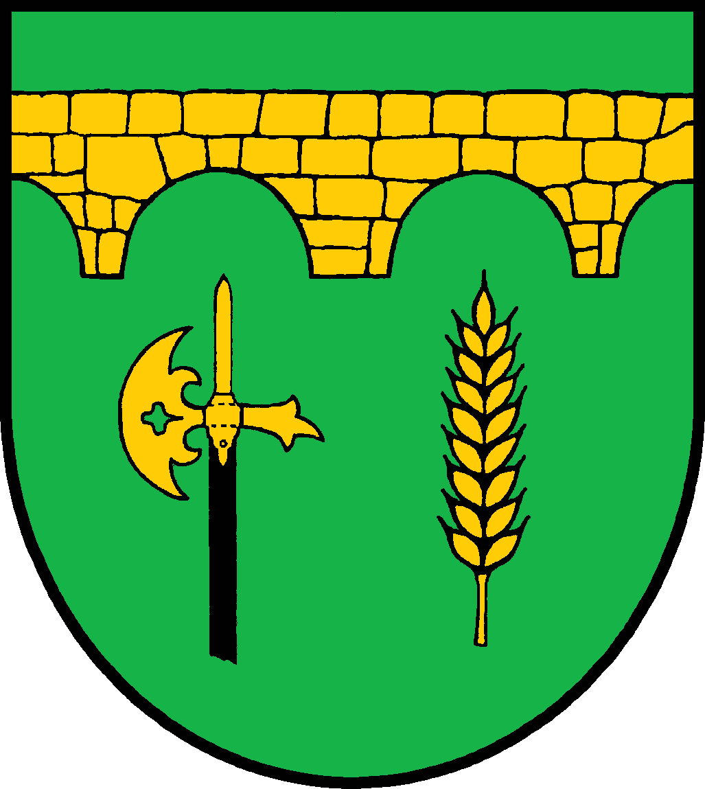 Coat of arms of the municipality Beschendorf in Schleswig-Holstein, Germany.